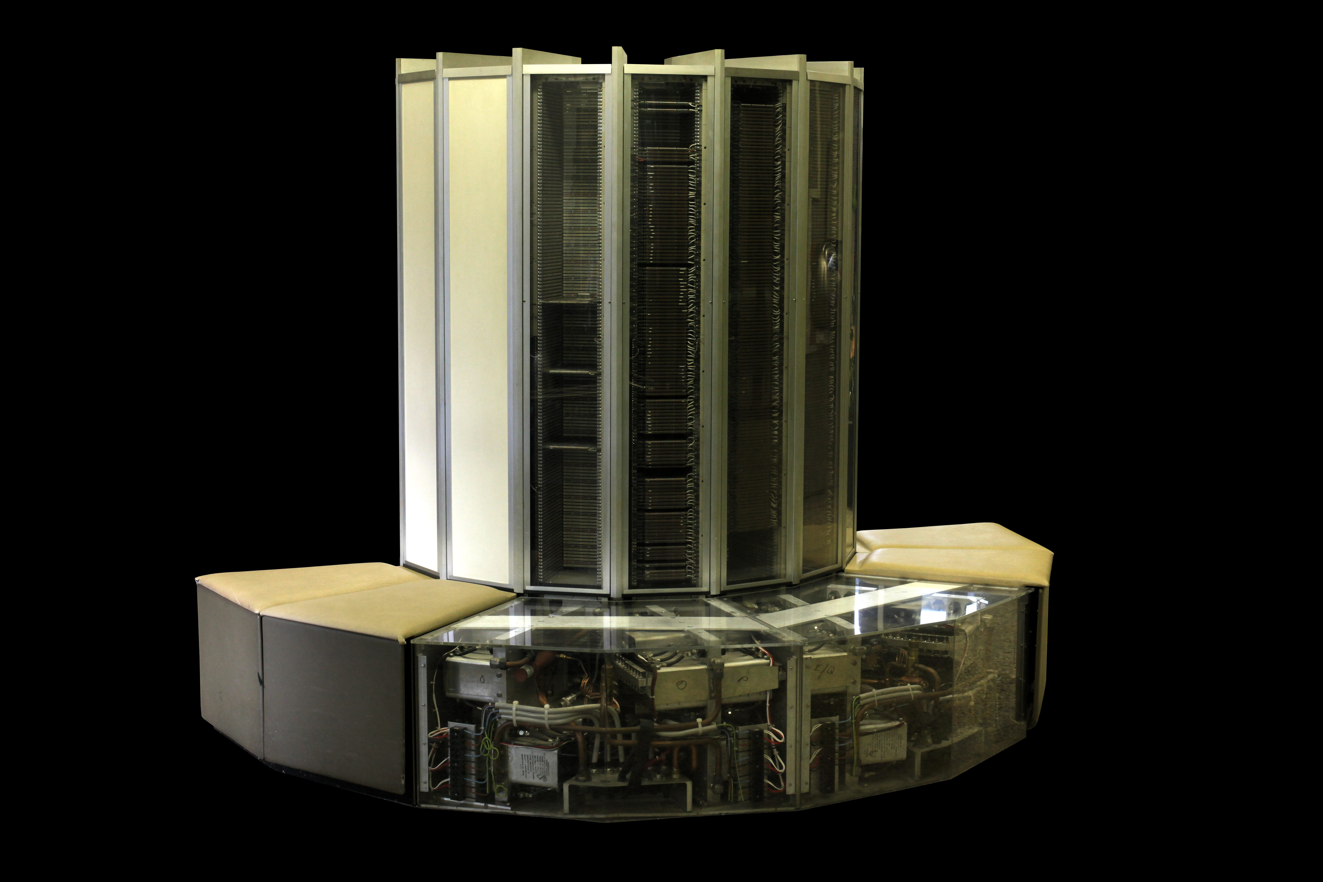 CRAY-1 on display in the hallways of the EPFL in Lausanne.